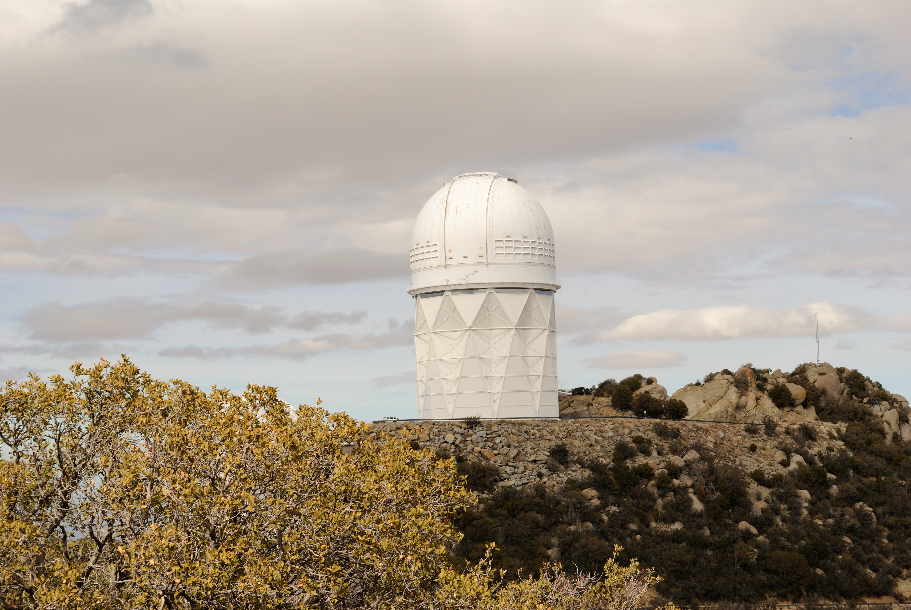 View of Mayall 4m Telescope